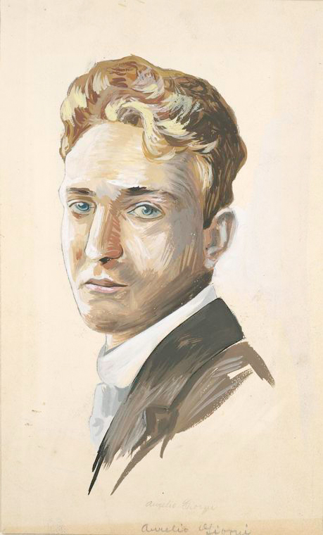 Aurelio Giorni - portrait in watercolor